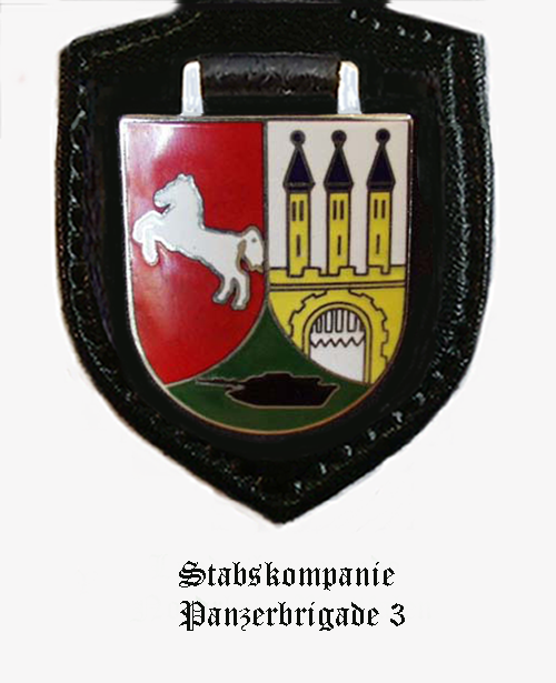 Internal coat of arms Stabskompanie Panzerbrigade 3 (StKp PzBrig 3) of the Bundeswehr (Armed Forces of the Federal Republic of Germany). → Remarks on naming and categorization scheme